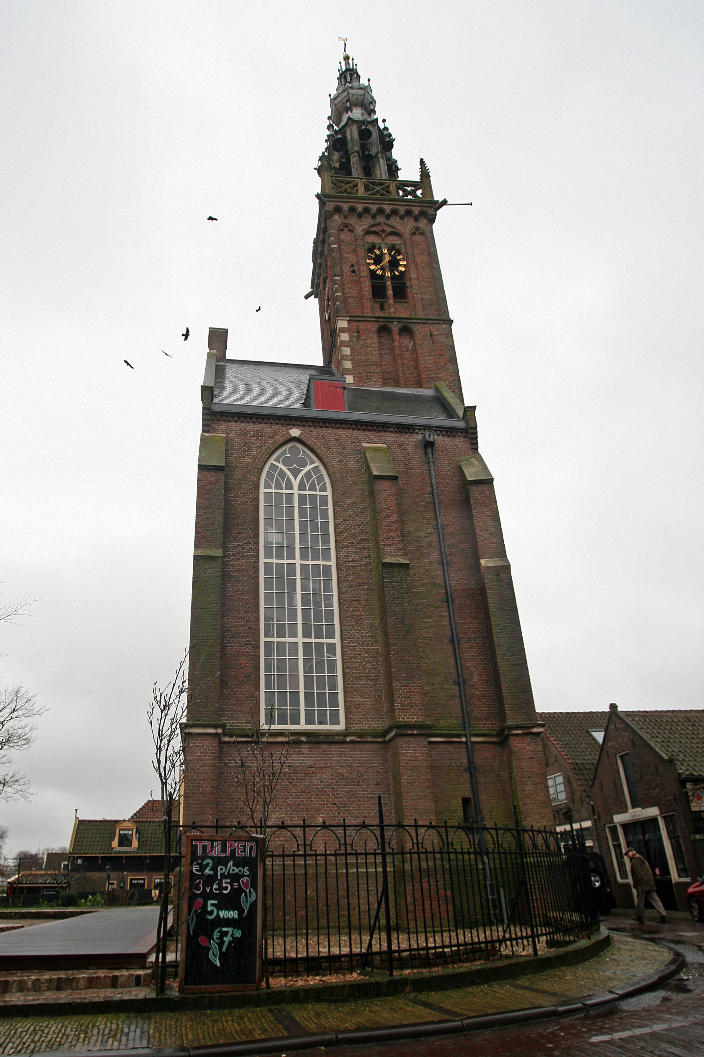 The carillon tower is all that remains of a late gothic church in the small town of Edam (yes, Edam... like the cheese). The gray sky and (loud) crows give this tower an ominous feeling, but it is really a beautiful, majestic, old structure. At least the tulip sale brightens things up a bit. This tower from the 15th century was part of a larger church (The Church of Our Dear Lady), most of which collapsed in the 1883. It's funny, I've been to many cities in my country that were established after 1883. To our travel companions Cindy and Elaina, I took your advice and put the bulk of the Edam, Volendam, Marken, and Zaandam photos up on . Email me at and I'll send you a link to share these with you!